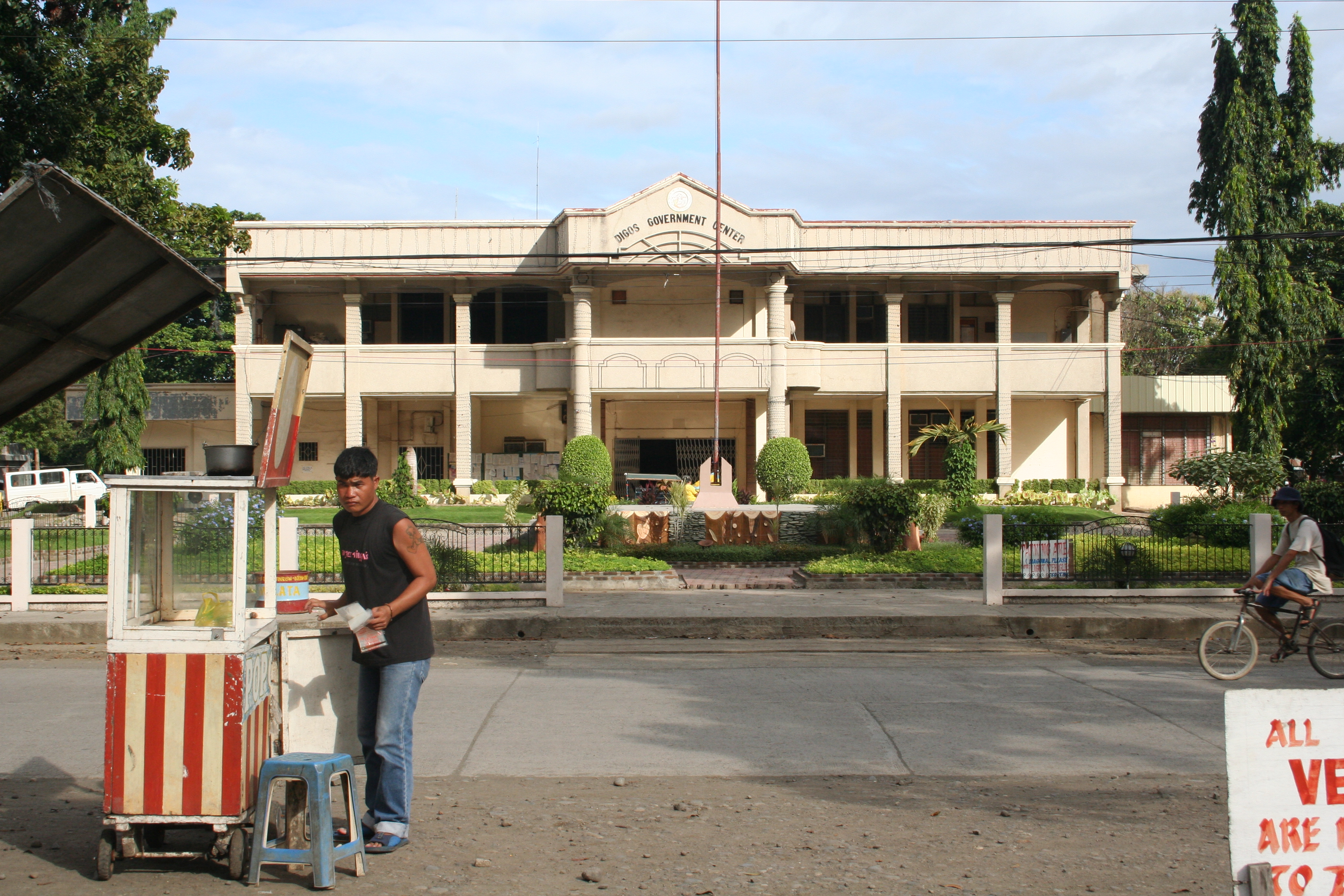 The City Hall in Digos City, Davao del Sur, Philippines.